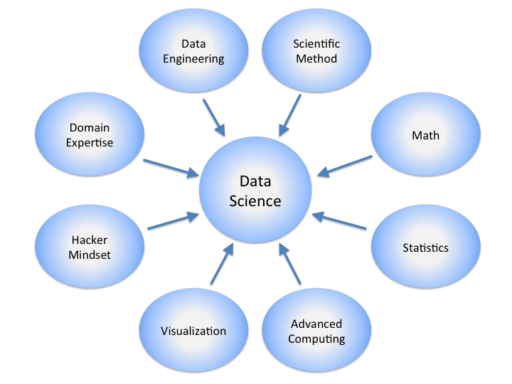 Depicts a mash-up of disciplines from which Data Science is derived